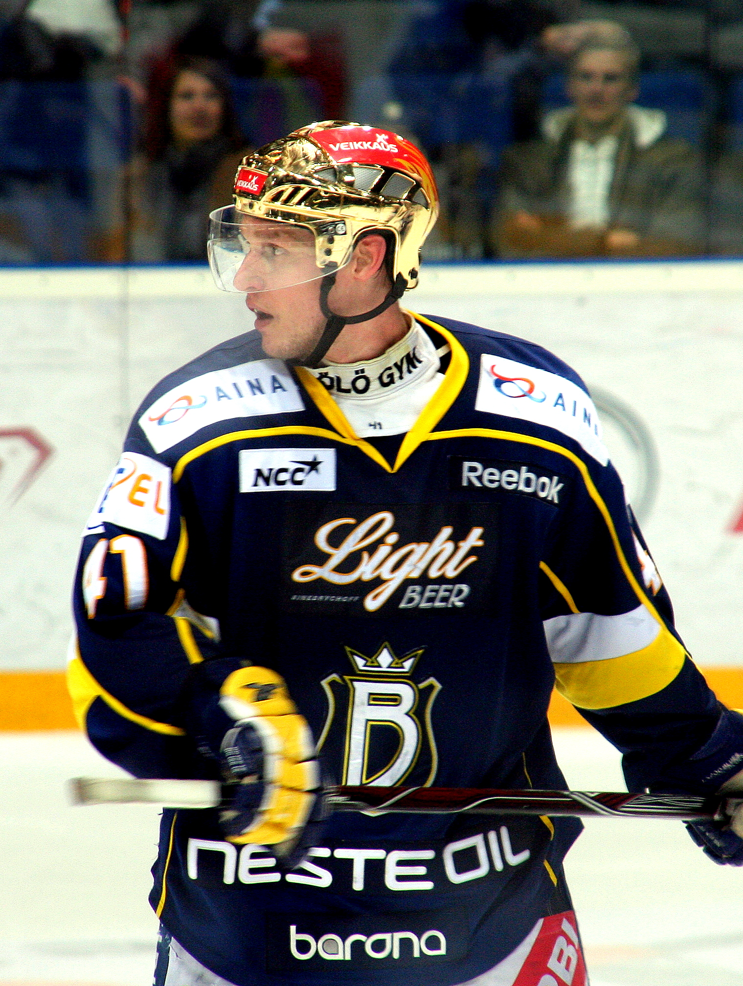 Ice Hockey team Espoo Blues' Attacker #41 Stefan Öhman